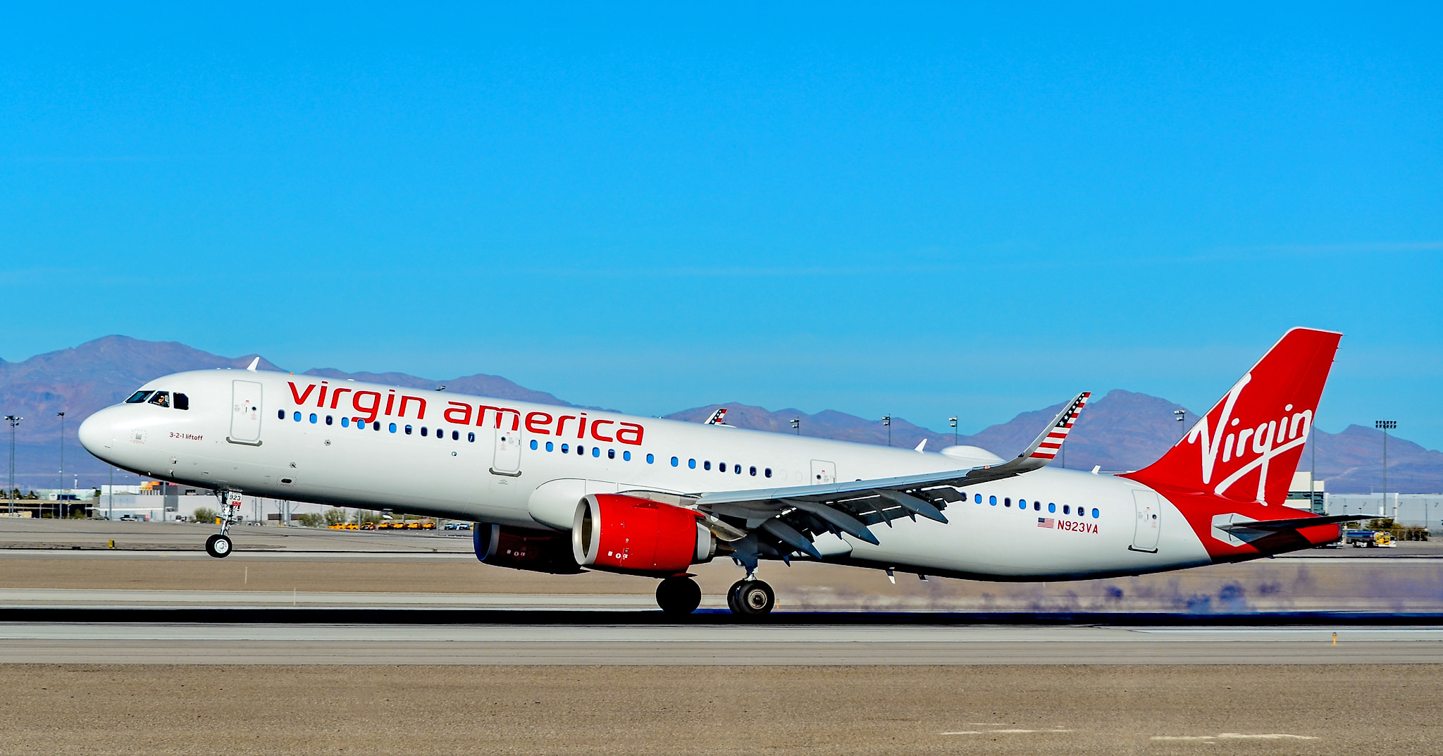 Airbus A321neo Las Vegas - McCarran International (LAS / KLAS) USA - Nevada, January 7, 2018 Photo: Tomás Del Coro